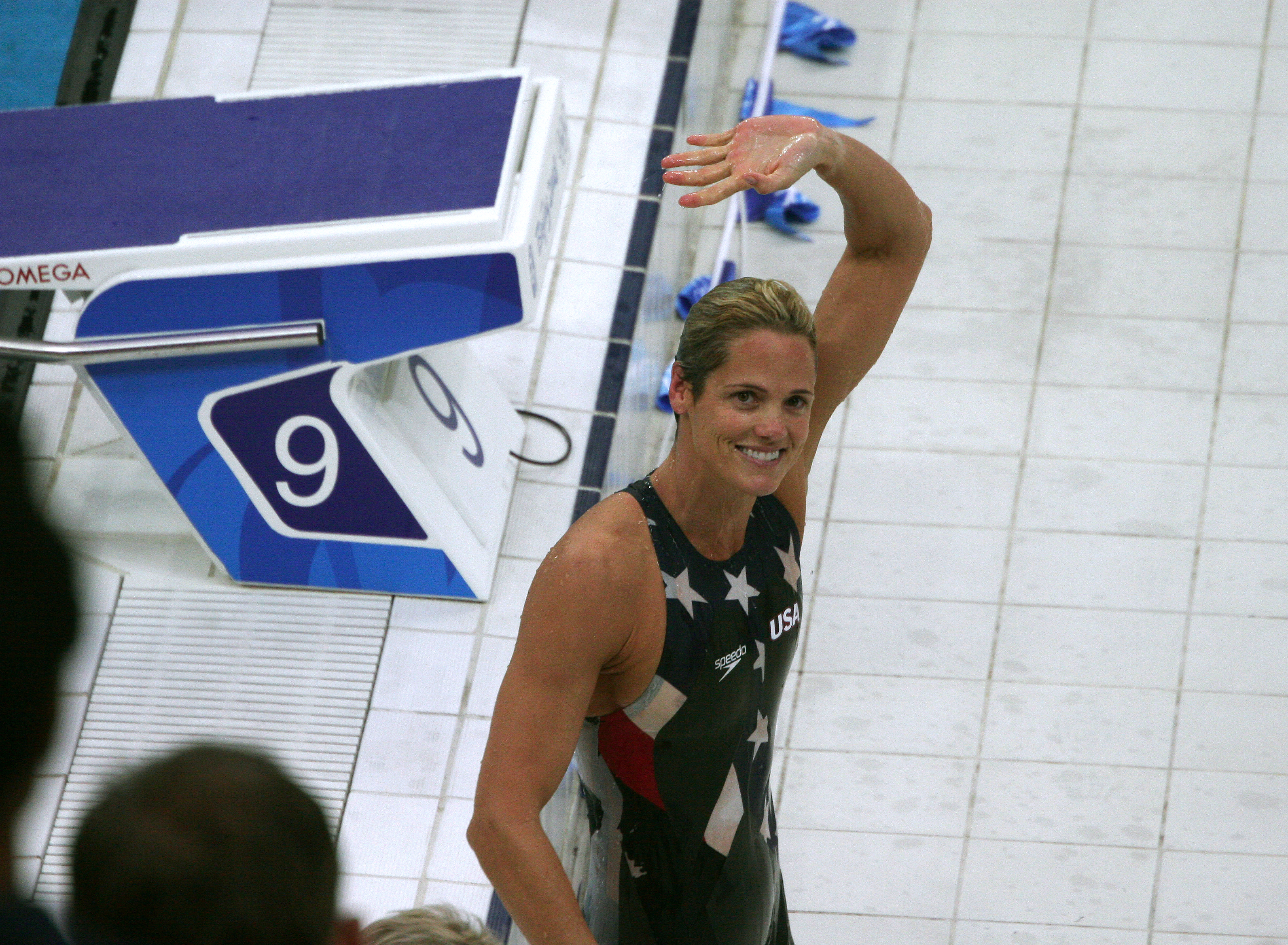 American swimmer Dara Torres waves to the crowd after taking silver in the women's 50m freestyle event.